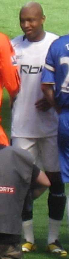 El Hadji Diouf. Image cropped from original at flickr.